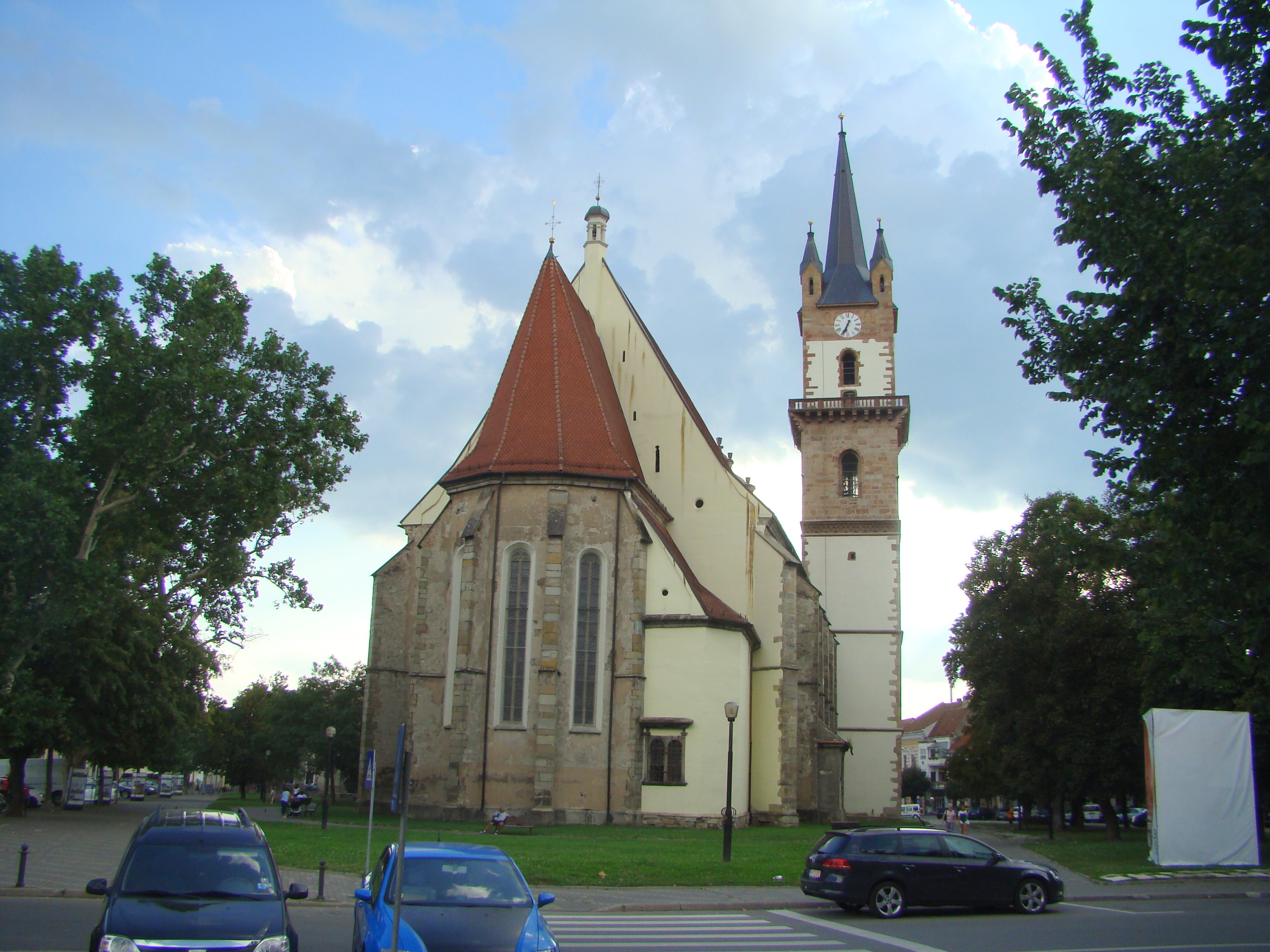 Lutheran church in Bistrița